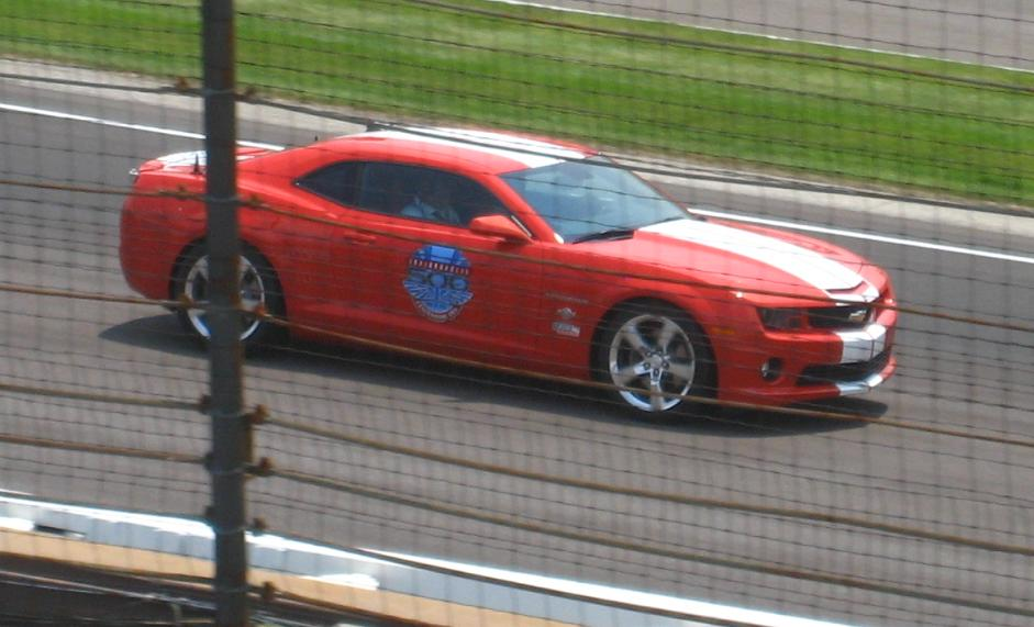 2011 Chevrolet Camaro SS Indianapolis 500 Pace Car.